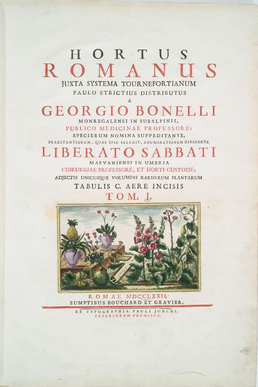 First volume from Hortus Romanus, Italy - 18th century.